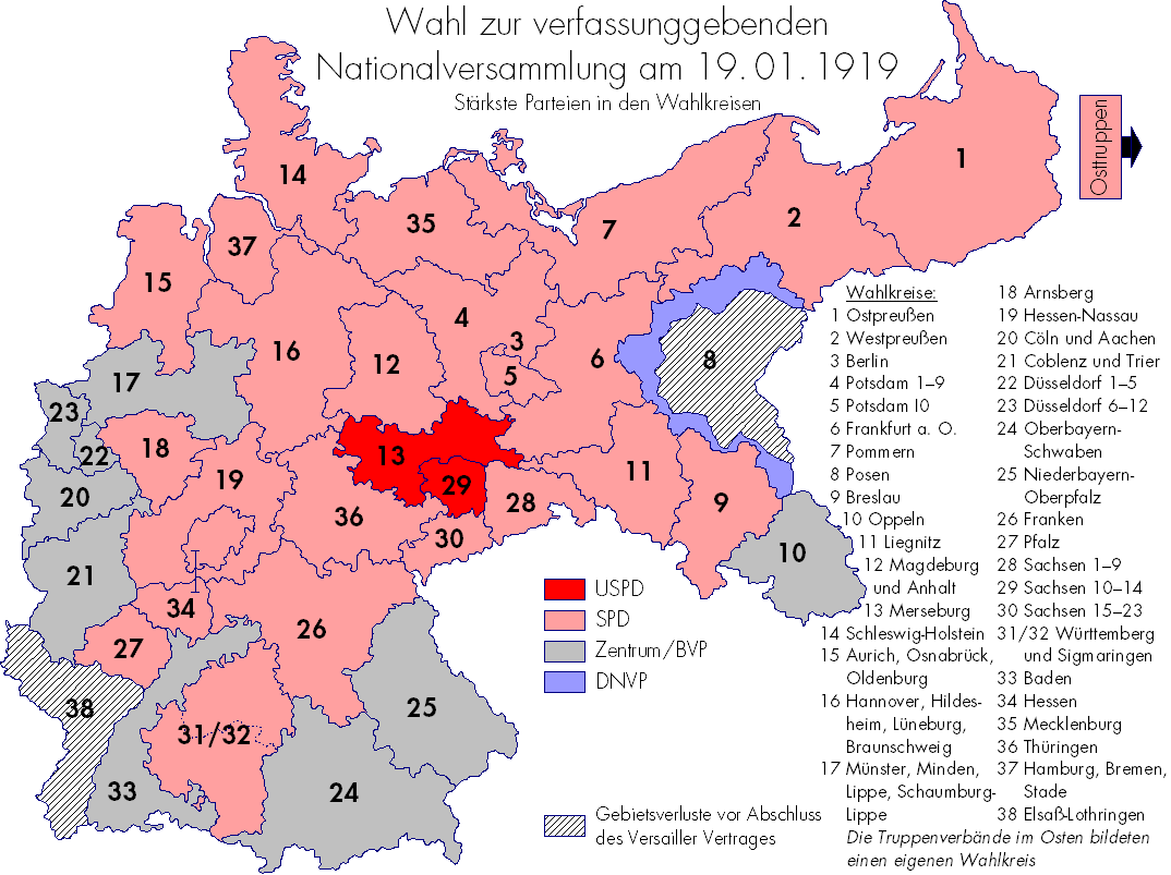 Election results for Weimar National Assembly 1919 by constituency.